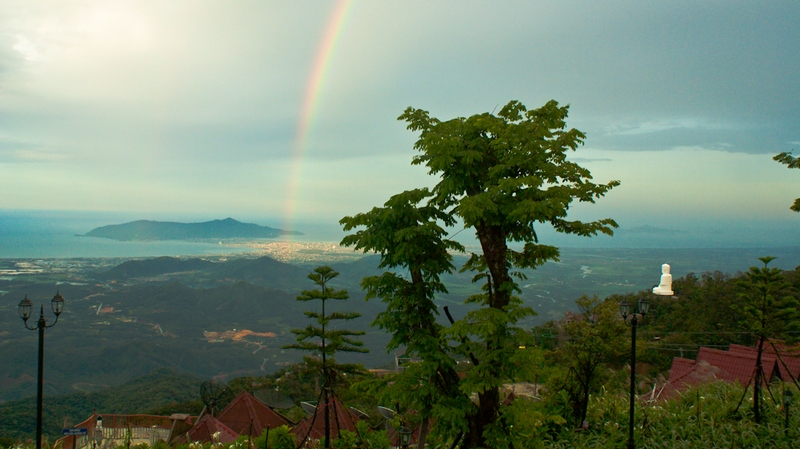 View from Morin Hotel